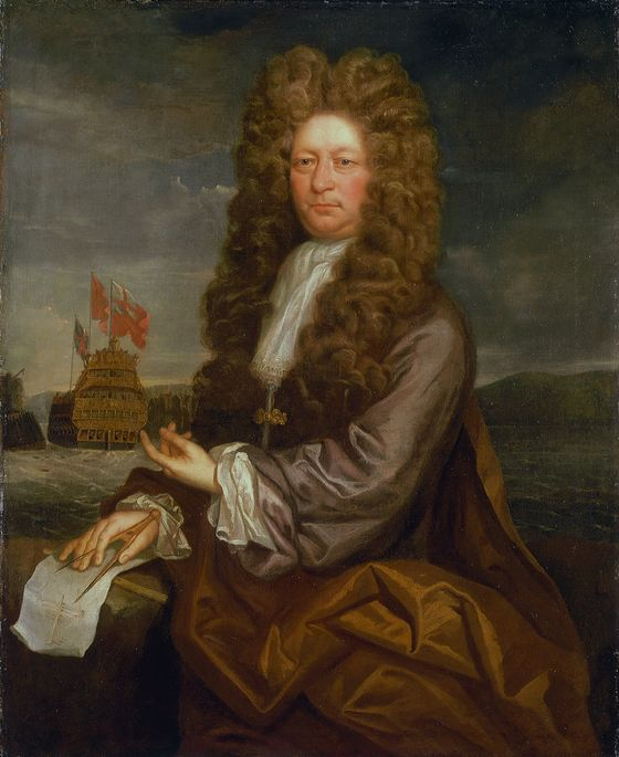 "Fisher Harding, Master Shipwright, active 1698-1701, with the Launch of the 'Royal Sovereign', 1701." Courtesy of the National Maritime Museum, Greenwich, London.